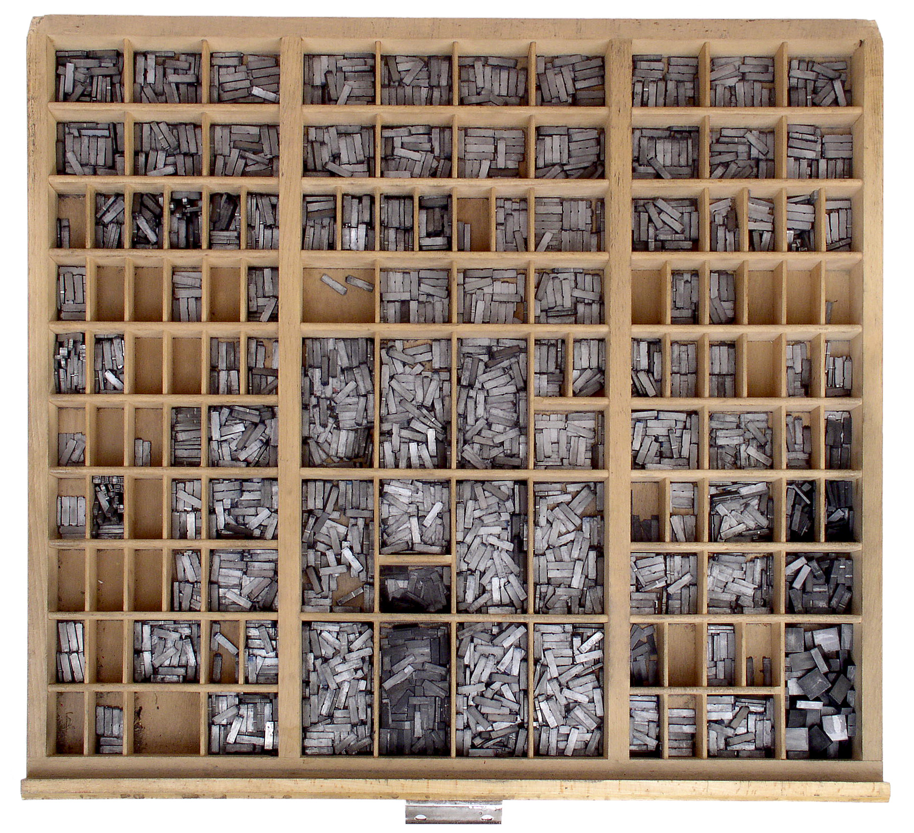 German Type Case